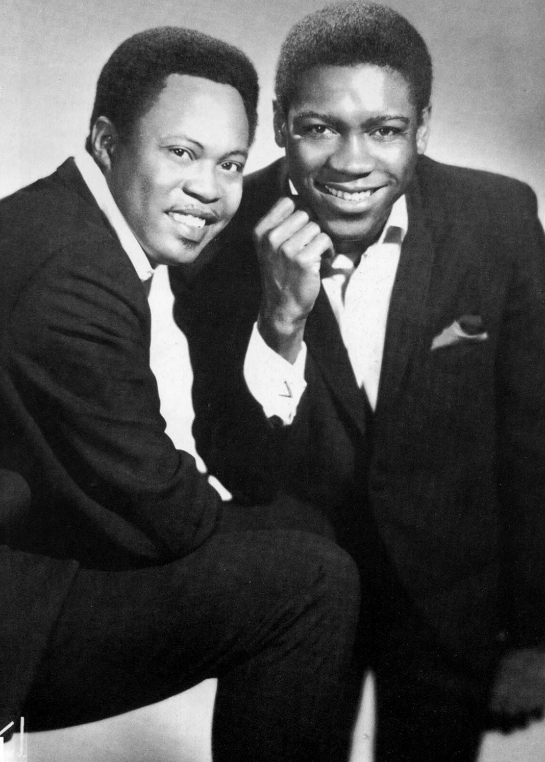 Trade ad for Sam & Dave's single "When Something Is Wrong With My Babe".To better adapt it to his respective Wikipedia article, the ad was cropped and cleaned in a graphics editing program. The original can be viewed at the source below.